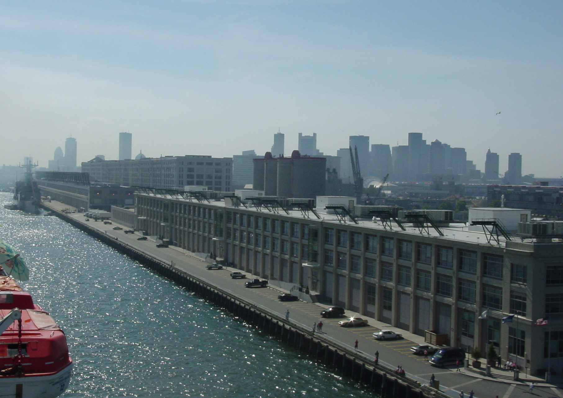 a view of the Black Falcon Cruise Terminal at the Port of Boston taken from the Norwegian Majesty cruise ship leaving port.